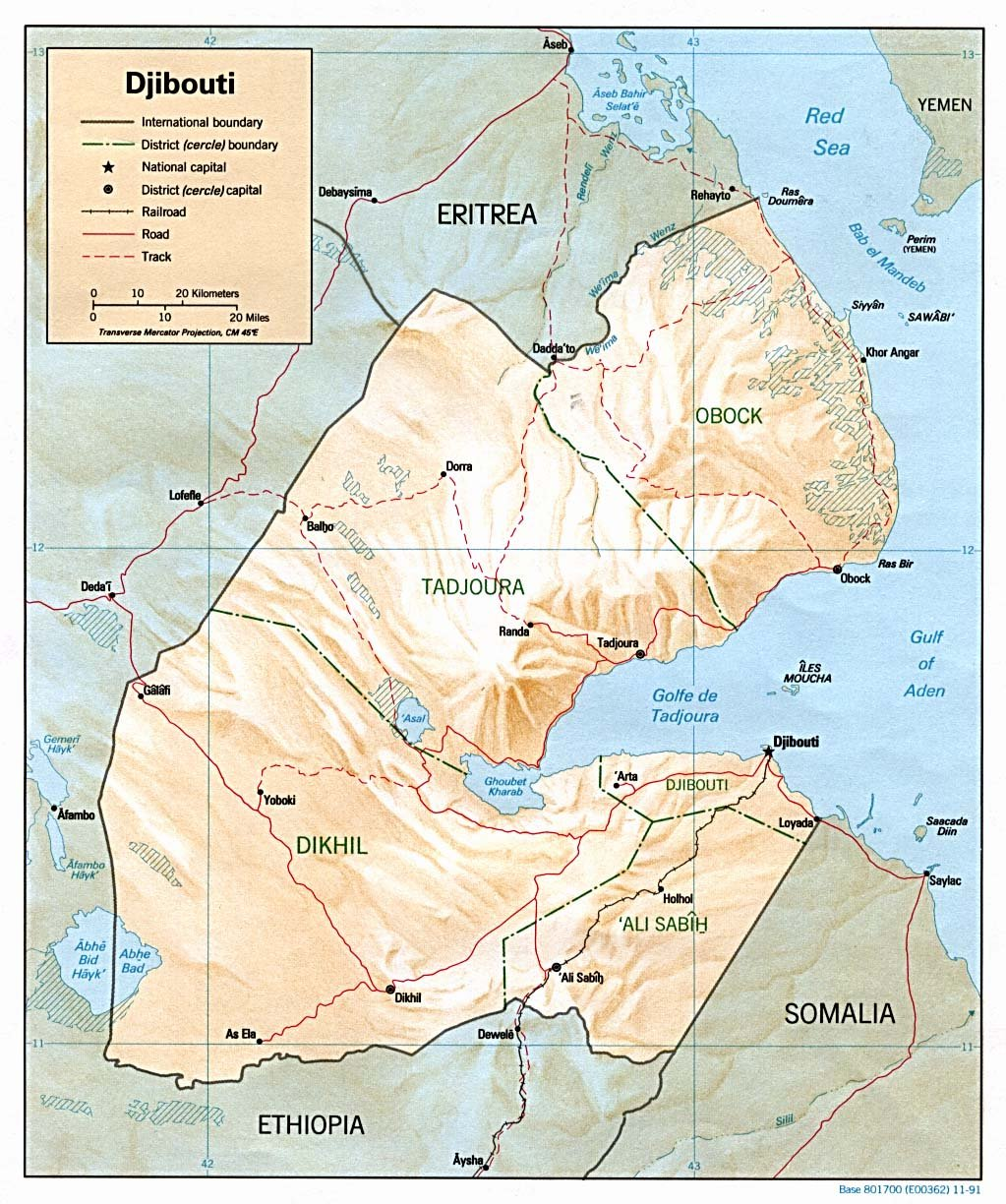 Shaded relief map of Djibouti, original from 1991, with the border between Ethiopia and Eritrea added in 2006.